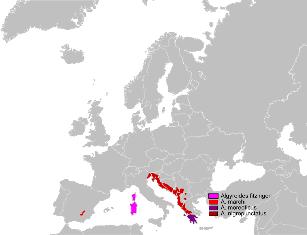 Algyroides genus range map.